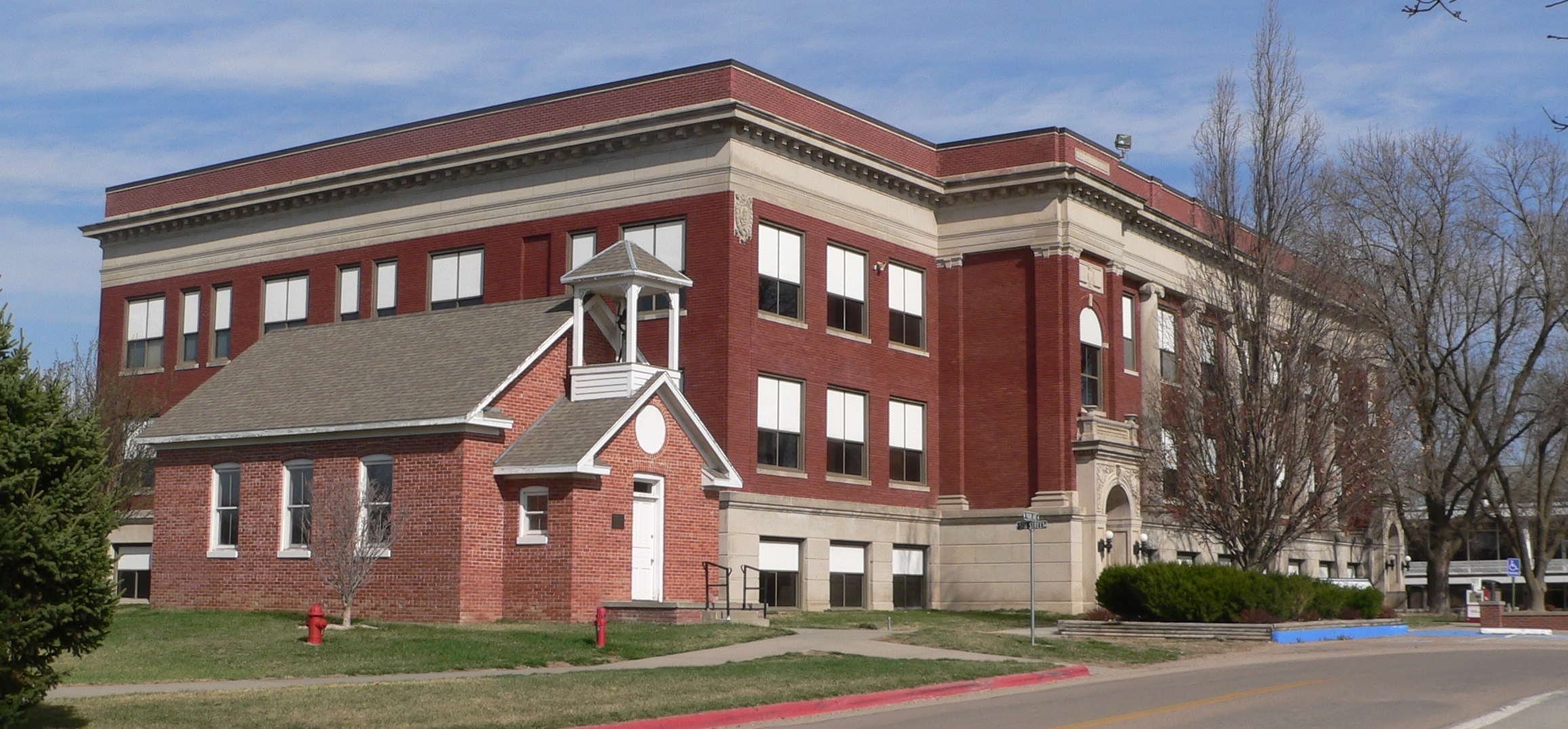 Little Red Schoolhouse and T. J. Majors Building at Peru State College in Peru, Nebraska; seen from the southeast.